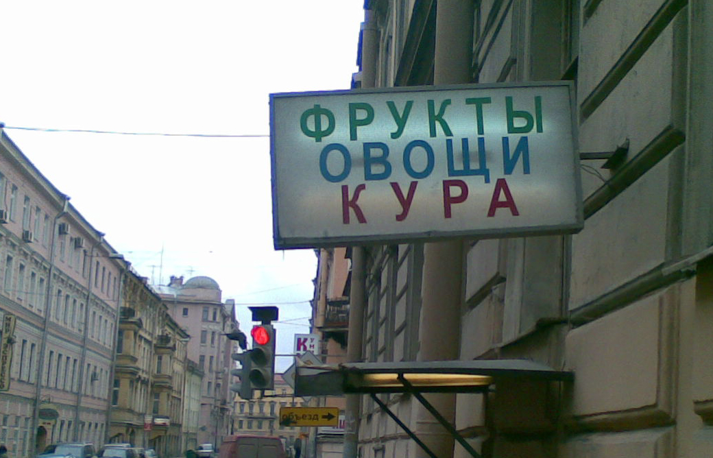 Lightbox "Fruits. Vegetables. Chicken." in Saint Petersburg, March, 15, 2008